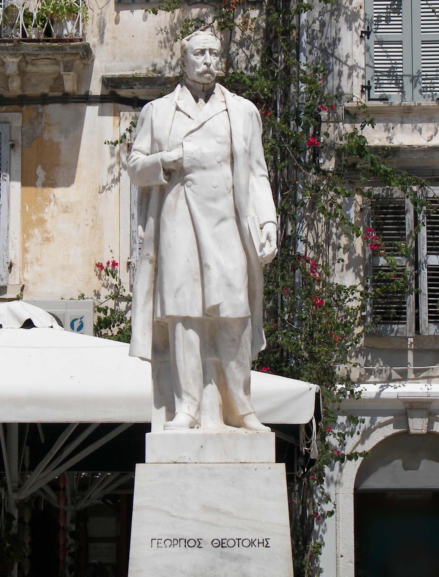 Georgios Theotokis b. in Corfu, Greece, Greek Prime Minister